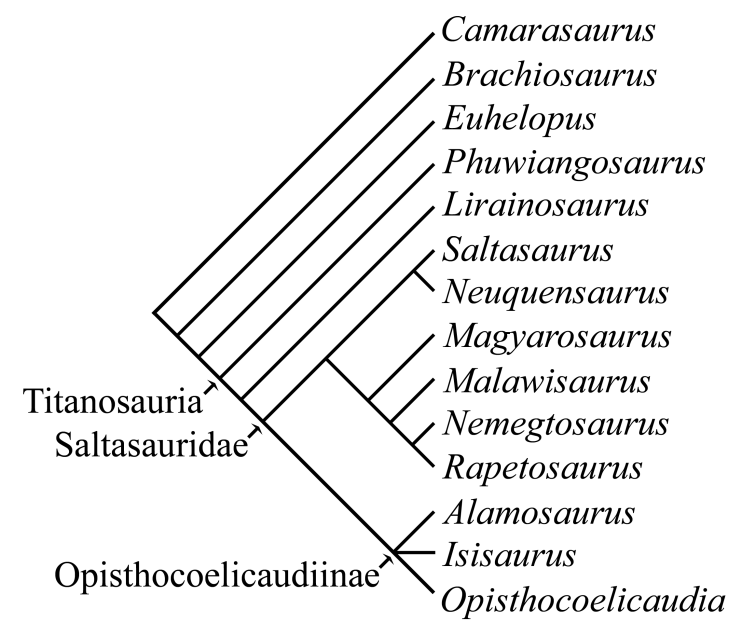 Simplified cladogram of Titanosauria, drawn by me, based on Curry-Rogers 2005 ("Titanosauria: A Phylogenetic Overview" in The Sauropods: Evolution and Paleobiology).